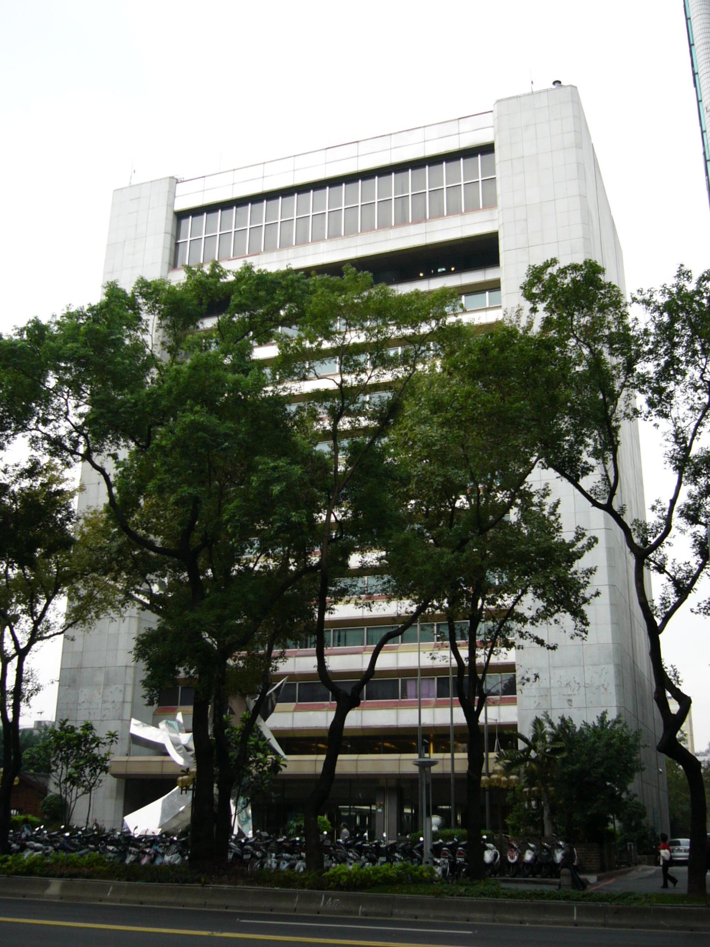 The front view of Taipei Fubon Bank Zhongshan Building.